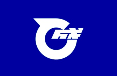 Flag of Higashinaruse Akita